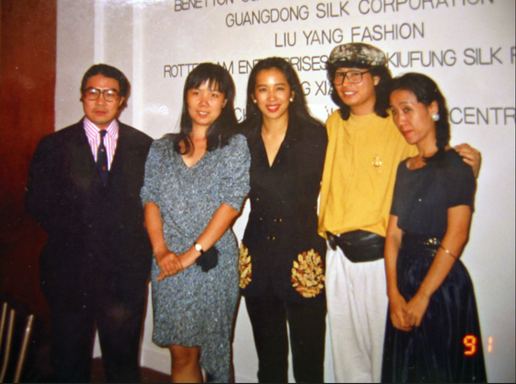 Pictured taken after Celine Chen's first major fashion show in 1991, at the White Swan Hotel in Canton. Celine Chen is in light blue dress (2nd from the left). The man standing next to Chen is 霍震霆, while the lady standing next to Celine is Fok's wife 朱玲玲. Man in yellow is currently a prominent Chinese fashion designer- 刘洋. Lady on the far right is 黄谷穗, currently one of the top ten fashion designers in China. 粵語: 從左至右：霍震霆、陳紅霞、朱玲玲、劉洋、黃谷穗